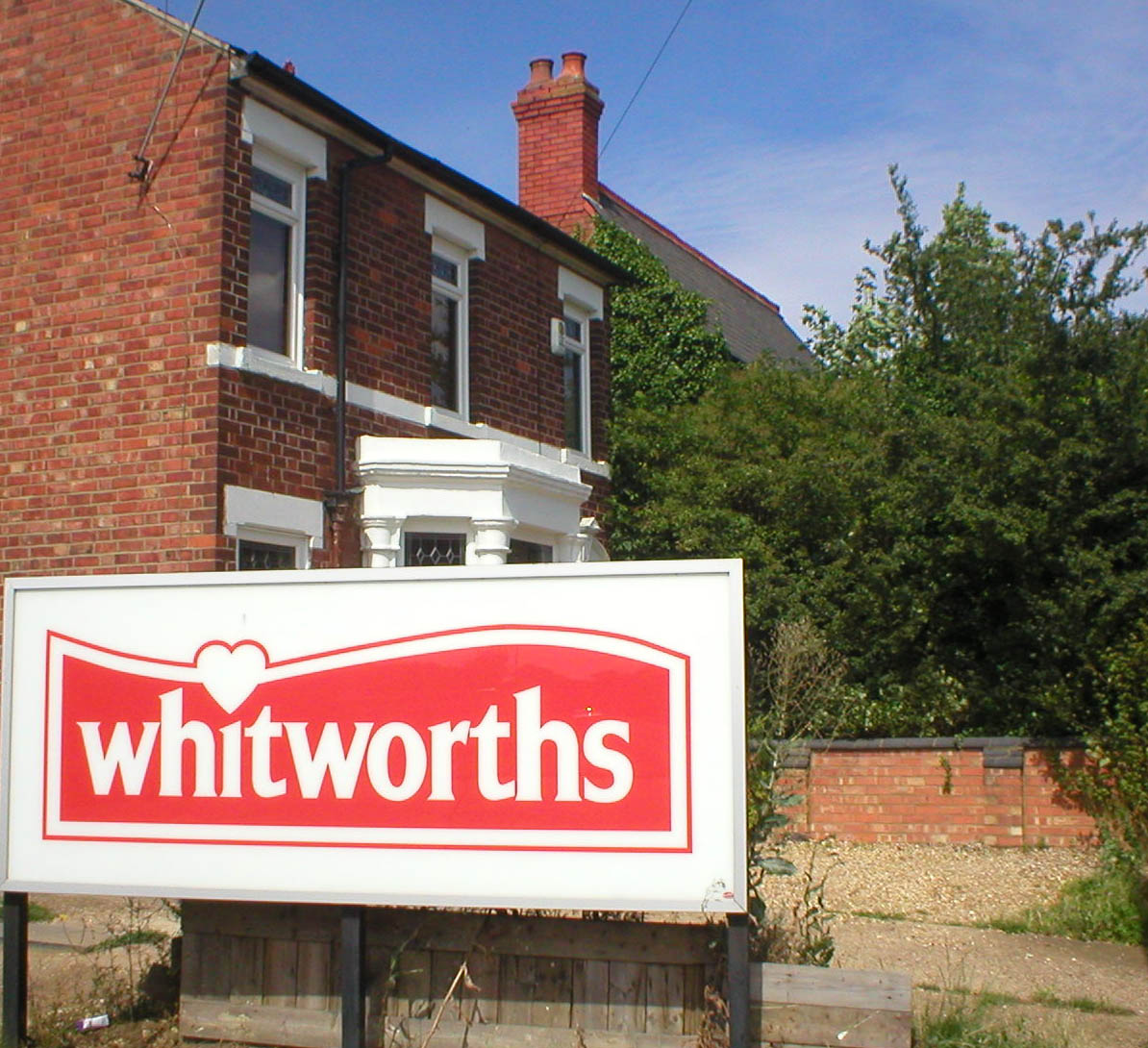 Whitworths head office Wellingborough Road Irthlingborough